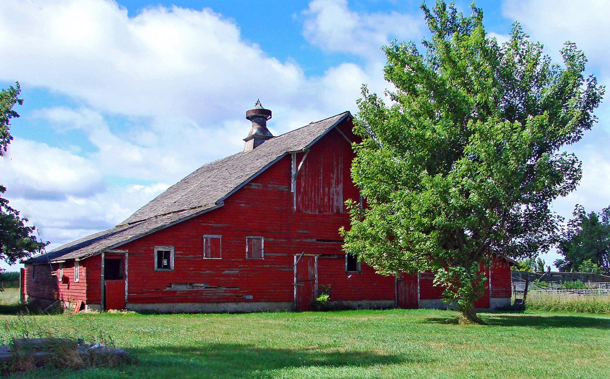 (1 in a multiple picture album) When I was back to my home state of Iowa in 2013 I spent a day driving around taking pictures of what is left of the small family farms that thrived when I was a lad. Most are gone now. If any buildings remain, they are used for storage. Most are unkempt but this one still has some of the red paint on it. It is sad to me. I can stand at a spot like this and hear the echoes of activity which once made these places alive.